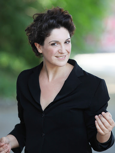 Francesca Ciocchetti